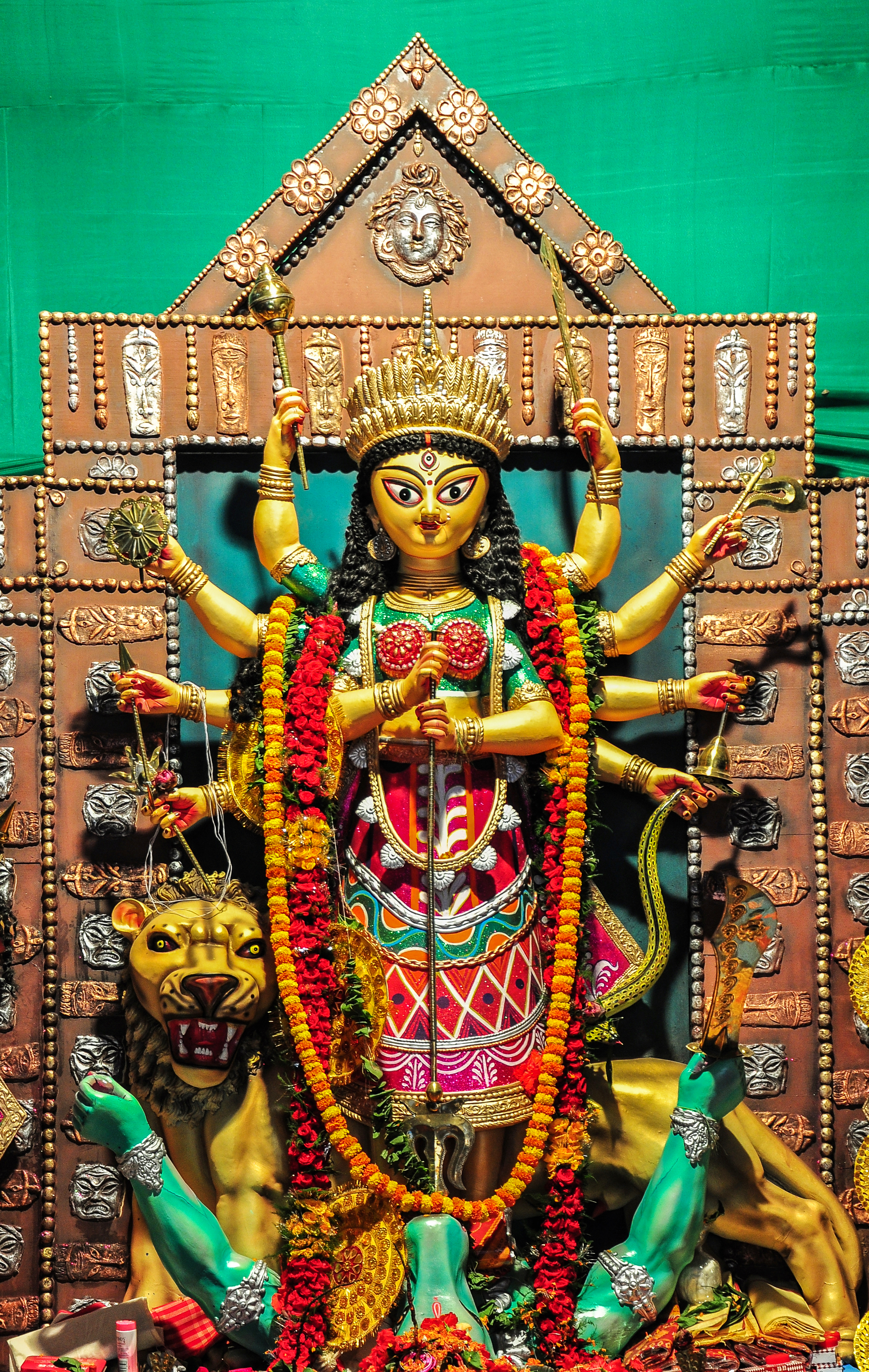 Sculpture of goddess Durga at Durga temple, Burdwan.